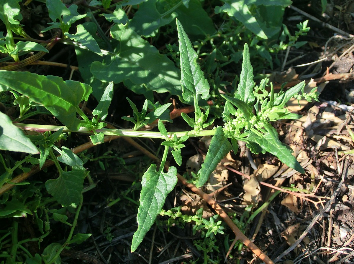 Patellifolia procumbens. Tenerife, Puerto de la Cruz, ruderal site with Pennisetum setaceum, ca. 70 m above sea level.